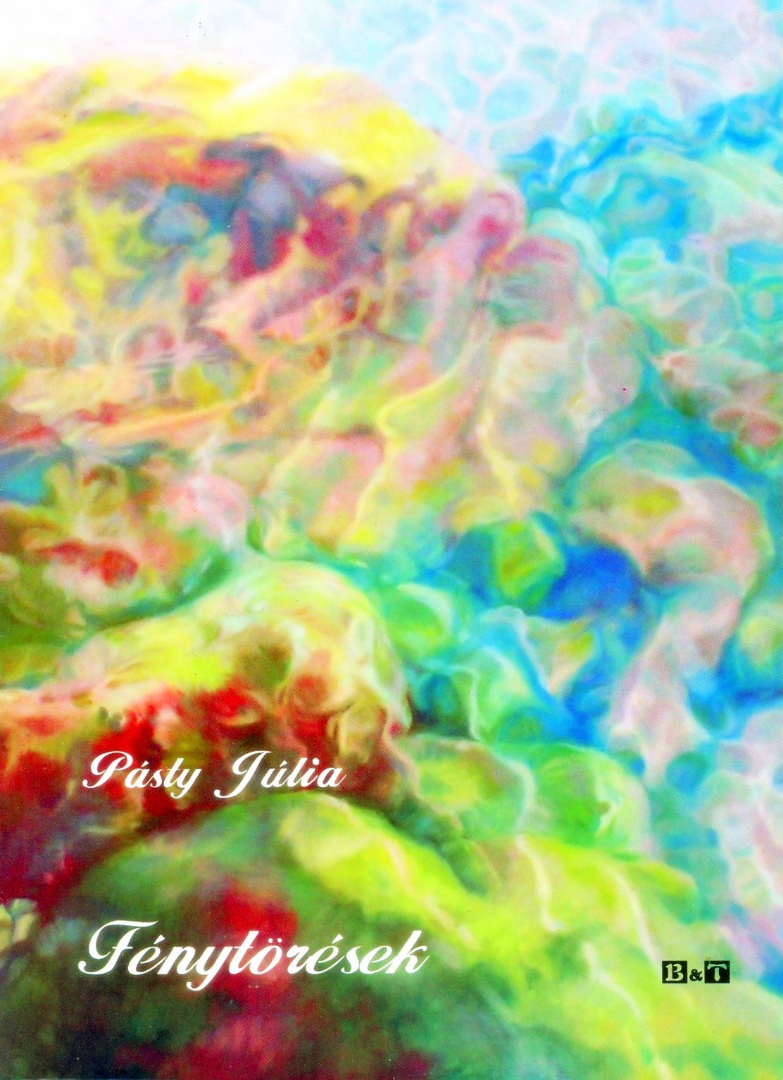 Júlia Pásty: Refraction Novel